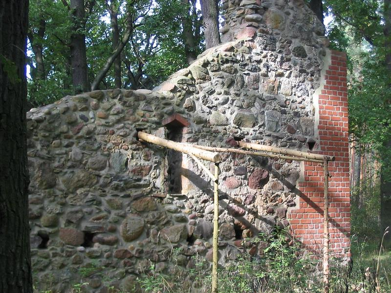 Ruin of the stonechurch in the abandoned village Dangelsdorf, situated in the forest „Nonnenheide“; built probably in the first half of the 14th century. In the south of the abandoned village was founded a new village Dangelsdorf, which is today a part of the municipality Görzke in the district Potsdam Mittelmark, state Brandenburg, Germany. The village appertains to the nature park Naturpark Hoher Fläming.